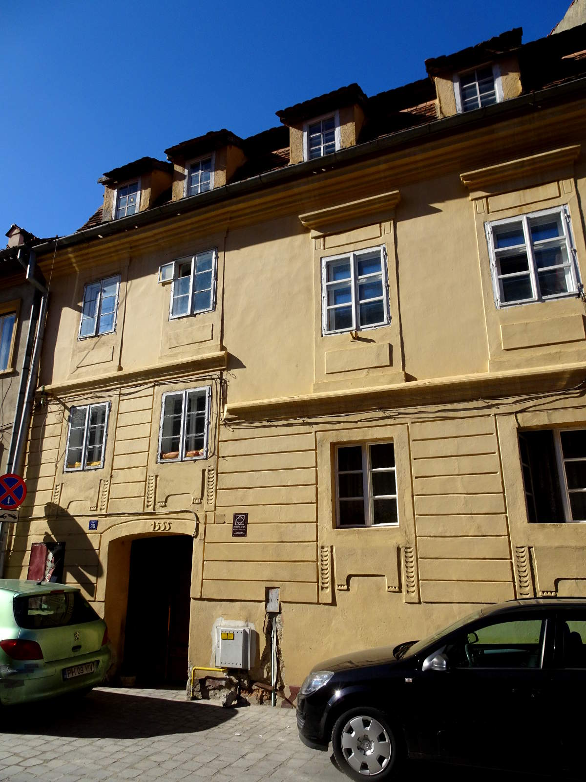 Strada Cerbului in Brasov, house number 30, historic monument